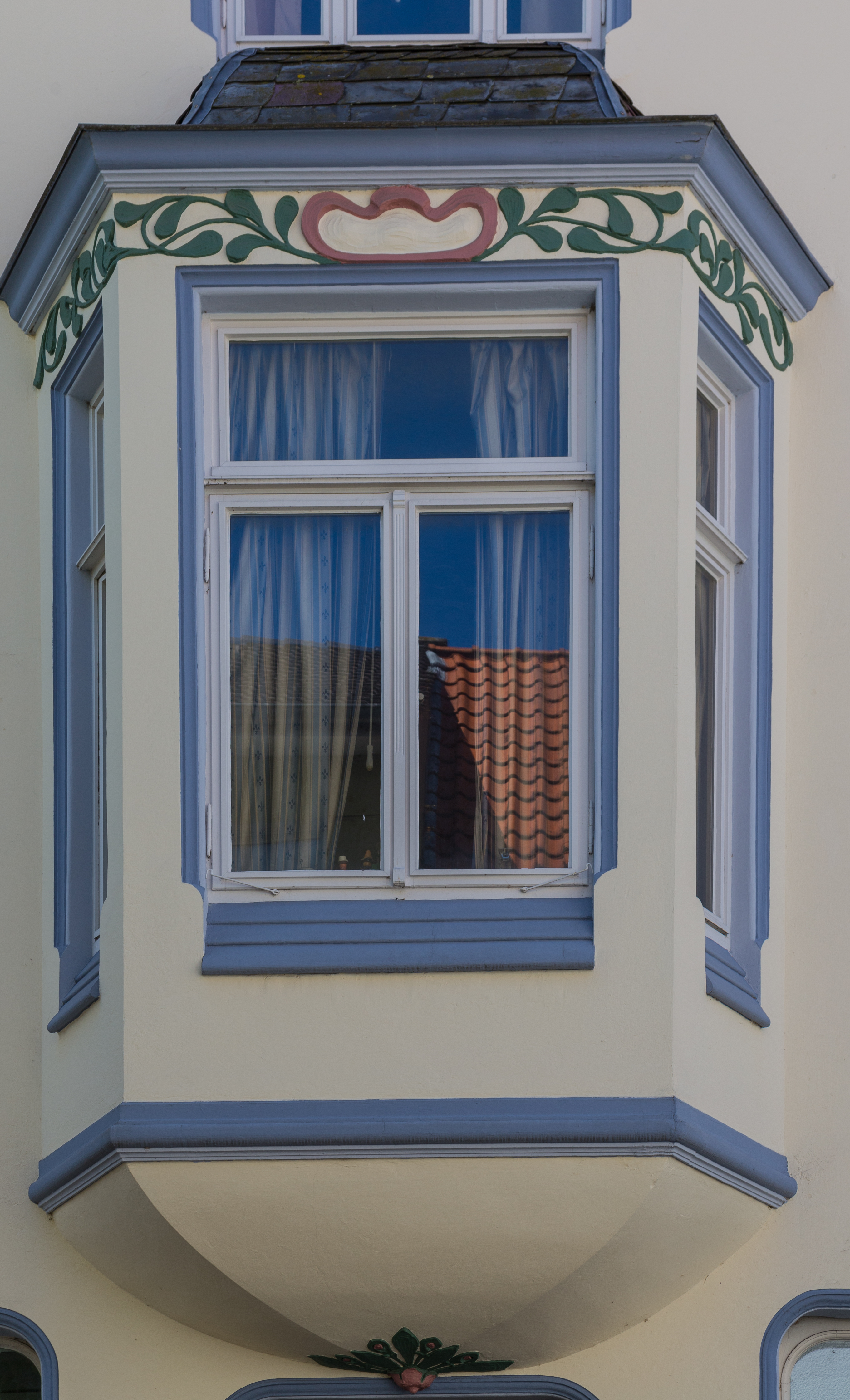 Bay window of Jasper House (Haus Jasper), 18 Station Street (Bahnhofstraße 18) in Lengerich, Kreis Steinfurt, North Rhine-Westphalia, Germany.